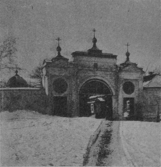 Gates of Gorny monastery in Vologda